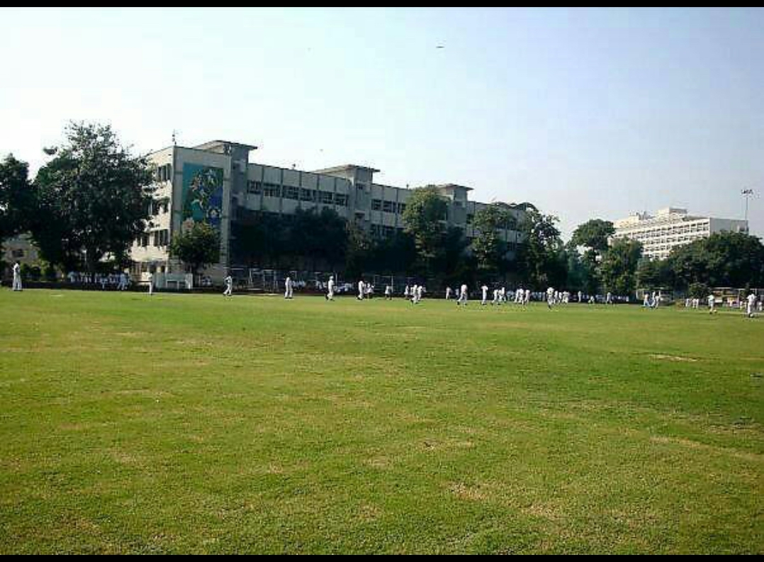 View of school from pt ground